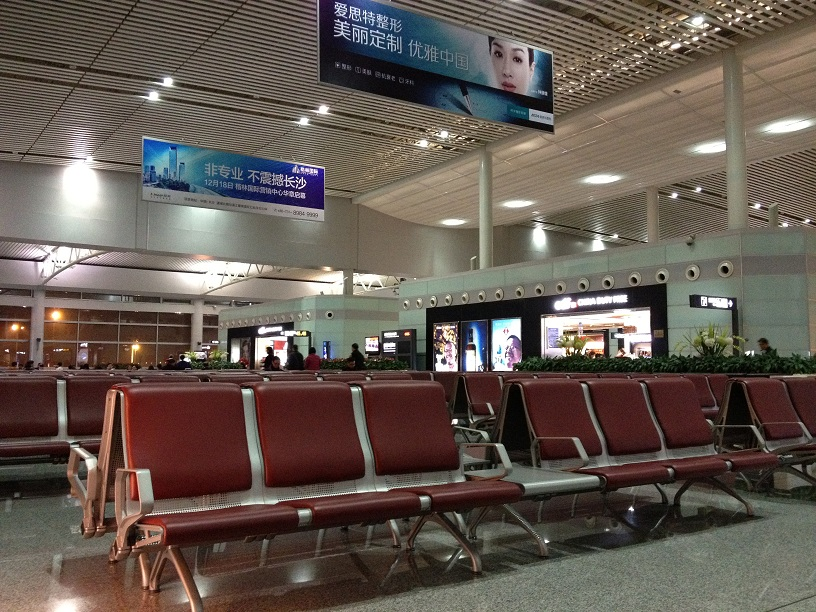 International area inside Terminal 2